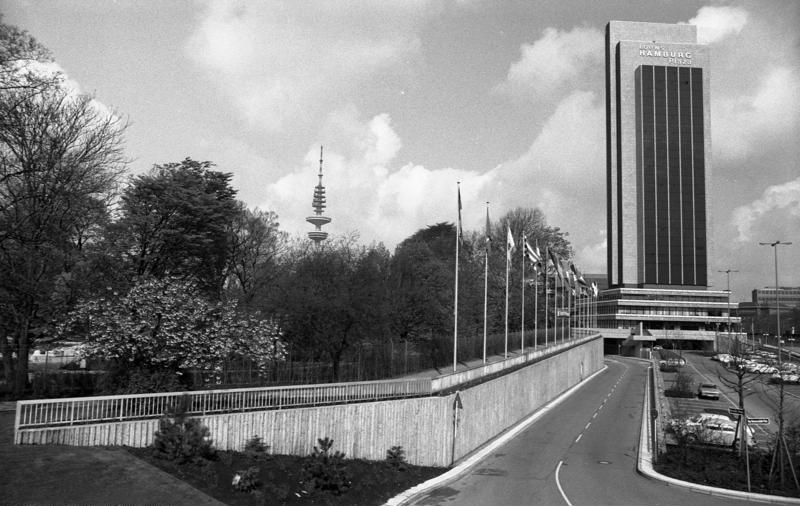 Hamburg: Congress Centrum